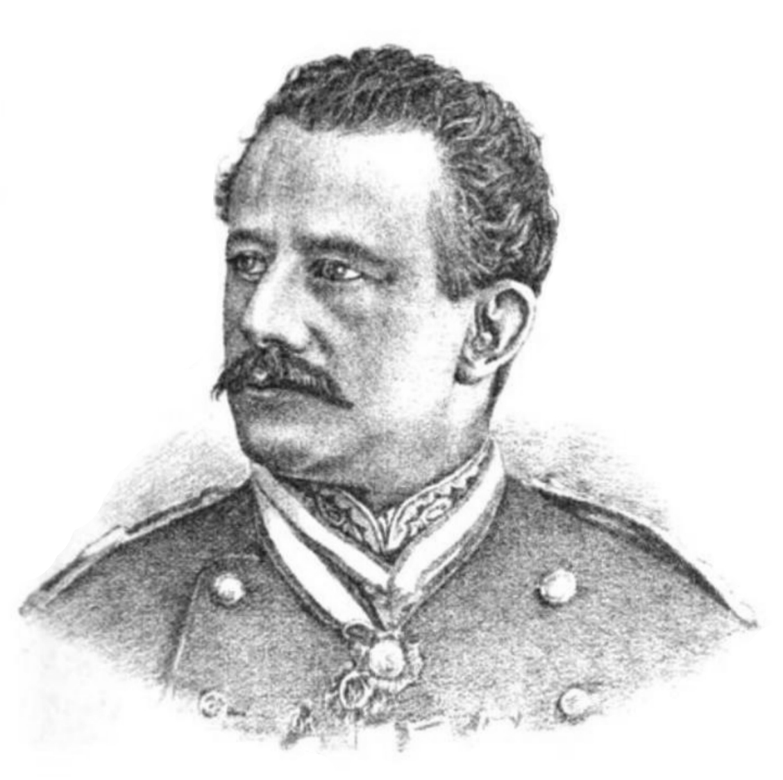 Drawing of General Bonifacio Topete from: Pavía, Lázaro. (1890). The states and their rulers: Light historical notes, biographies and statistics. Mexico: Tipografia de las Escalerillas.